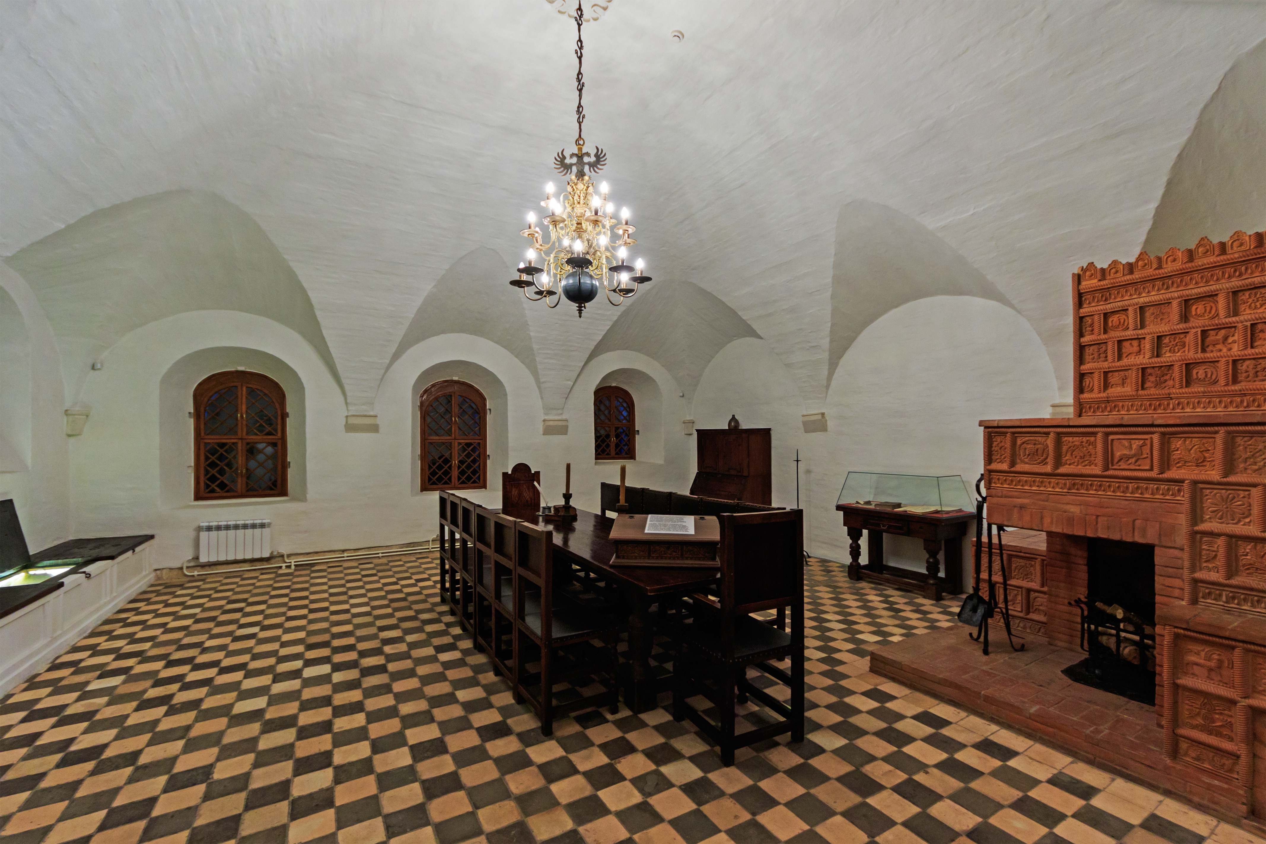 Interior of Old English Court in Moscow